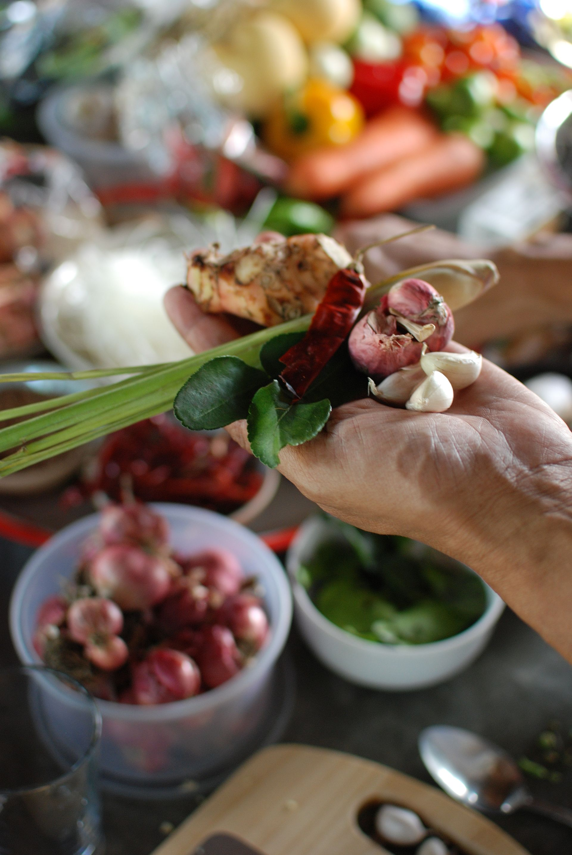 Vatcharin Bhumichitr holds some of the ingredients for making Thai red curry paste in his hand: galangal root, lemon grass, dried red chillies, kaffir lime leaves, garlic and shallots.